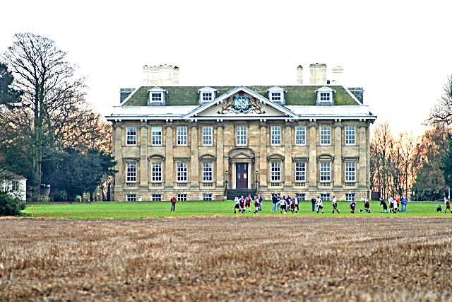 Cowick Hall lies between East Cowick and West Cowick, East Riding of Yorkshire, England.A medieval royal residence, Edward III of England, stayed there, the current hall dates from the 17th century. Today it is the HQ of Croda International plc